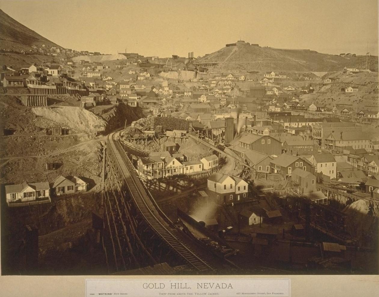 Gold Hill, Nevada, View from above the Yellow Jacket. Date of photo: Late 1870s Photographer: Carleton Watkins Permanent Link: Source: Western Nevada Historic Photo Collection